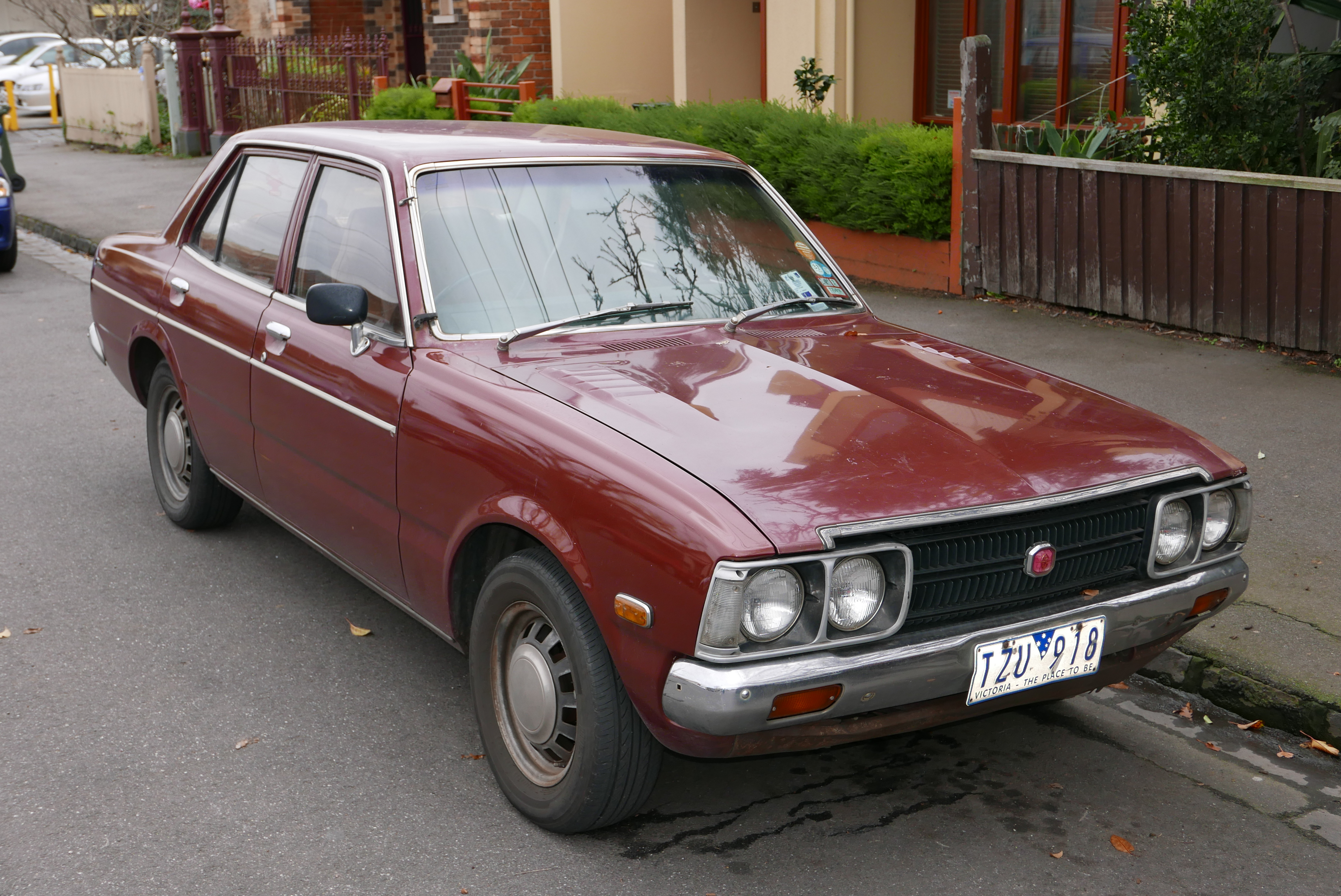 1975 Toyota Corona (RT104) SE sedan. Photographed in Fitzroy North, Victoria, Australia. Vehicle registration enquiry results Jurisdiction Victoria Registration TZU918 Chassis code RT104934269 Engine code 1058912 Compliance date 1975-12 Year of manufacture 1975